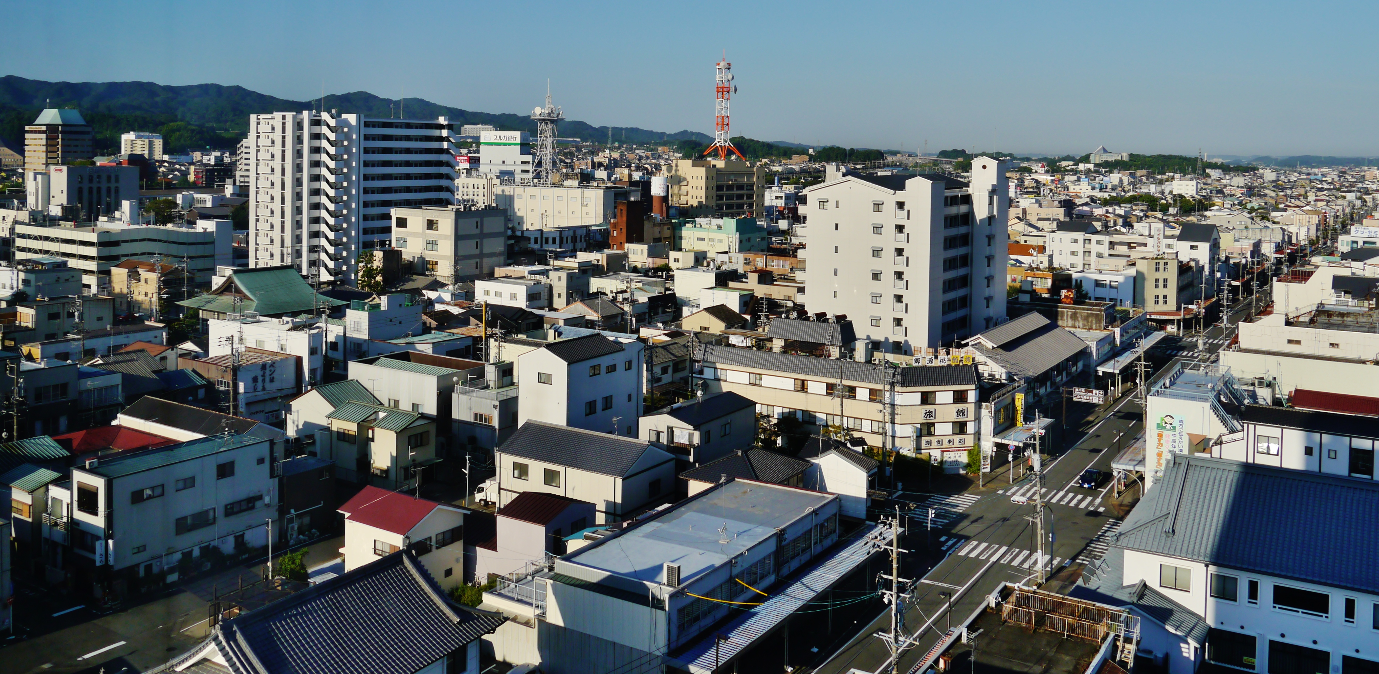 View from Dormy Inn Hotel, Kakegawa, Prefecture of Shizuoka, Region of Chubu, Japan